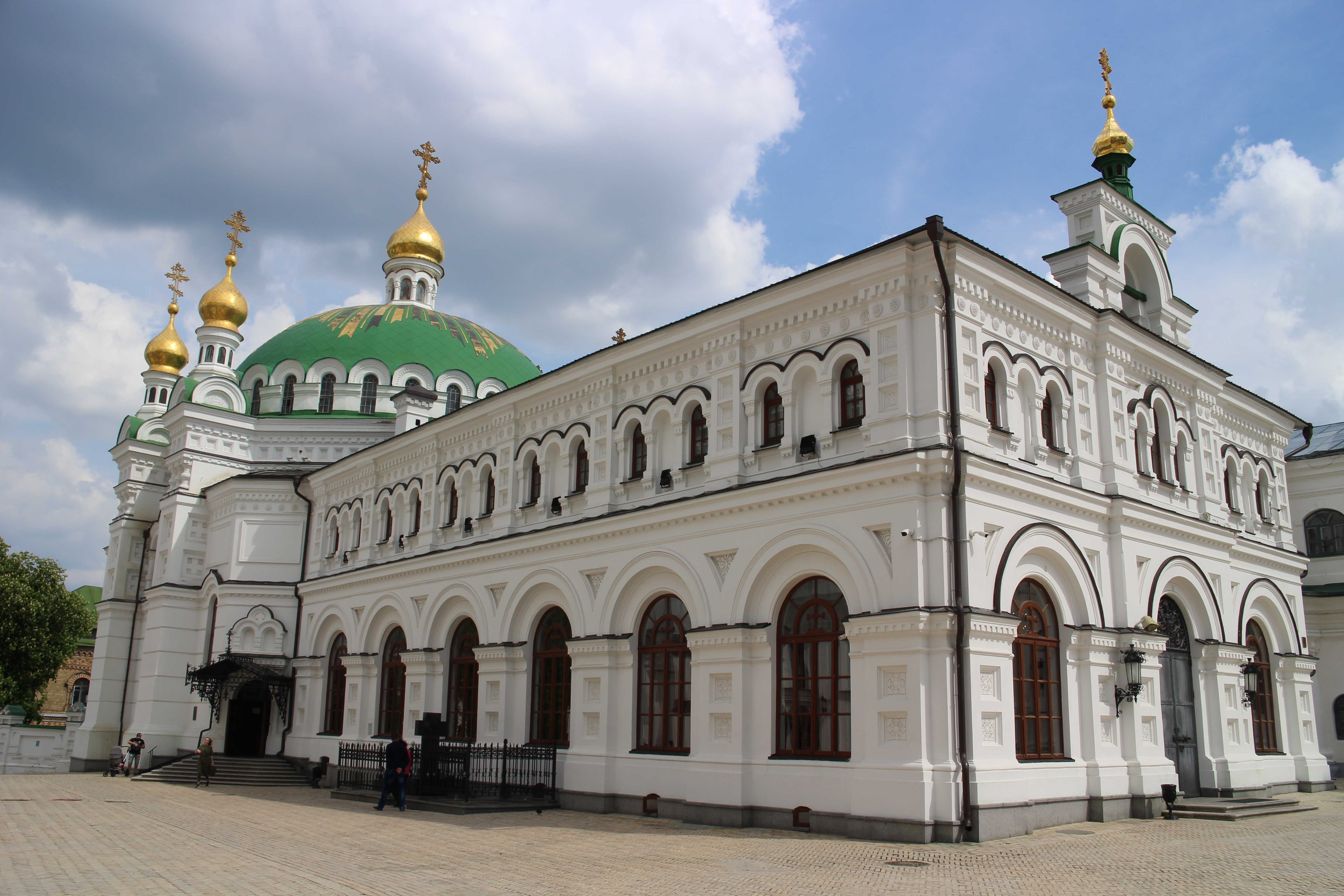 Refectory Church (Kiev Pechersk Lavra)